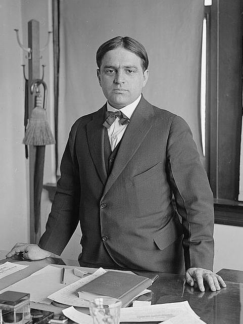 Bain News Service,, publisher. F.H. LaGuardia [between ca. 1915 and ca. 1920] 1 negative : glass ; 5 x 7 in. or smaller. Notes: Title from unverified data provided by the Bain News Service on the negatives or caption cards. Forms part of: George Grantham Bain Collection (Library of Congress). Format: Glass negatives. Repository: Library of Congress, Prints and Photographs Division, Washington, D.C. 20540 USA, General information about the Bain Collection is available at Higher resolution image is available (Persistent URL): Call Number: LC-B2- 4136-9